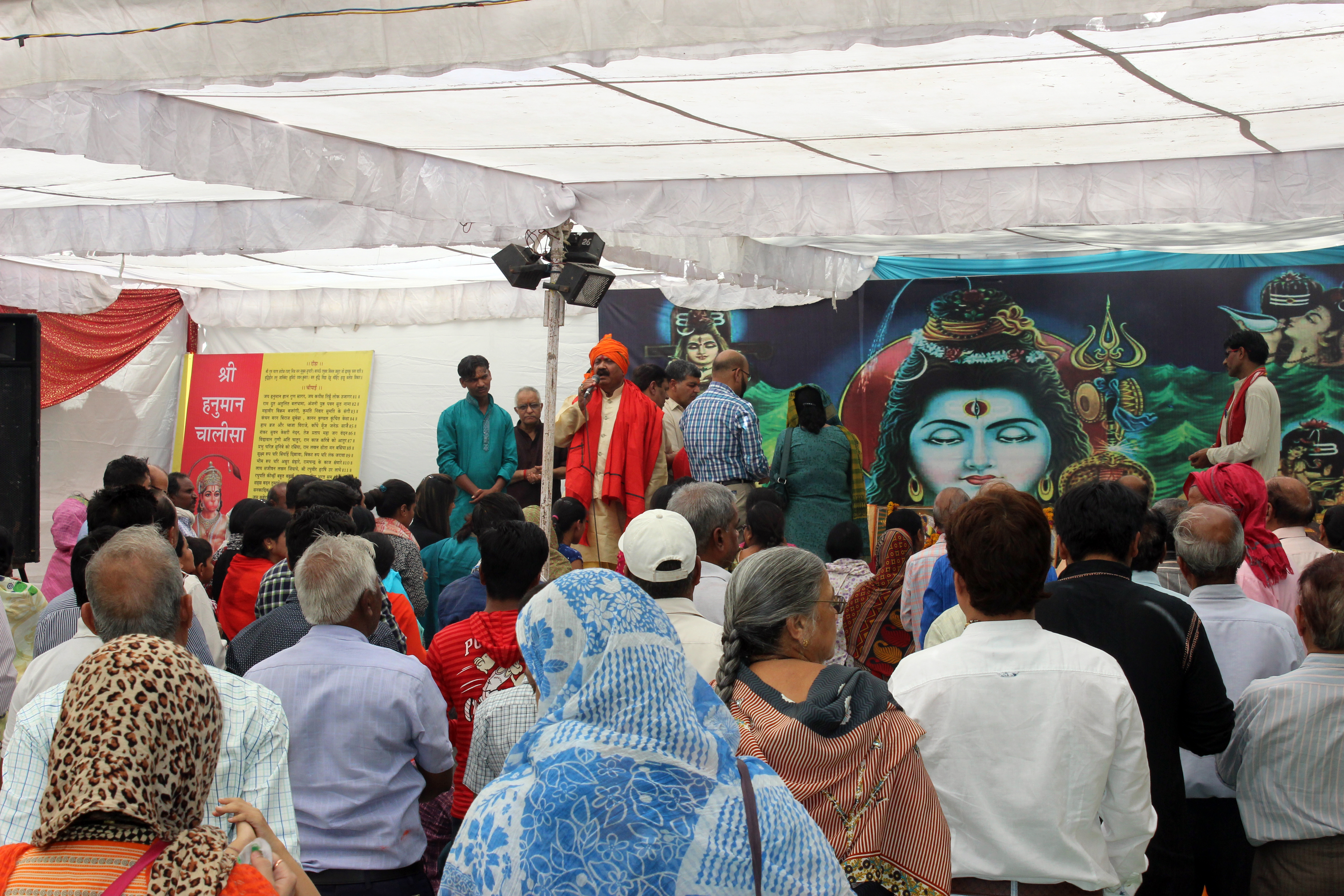 Hanuman Chalisa at Hanuman Jayanti